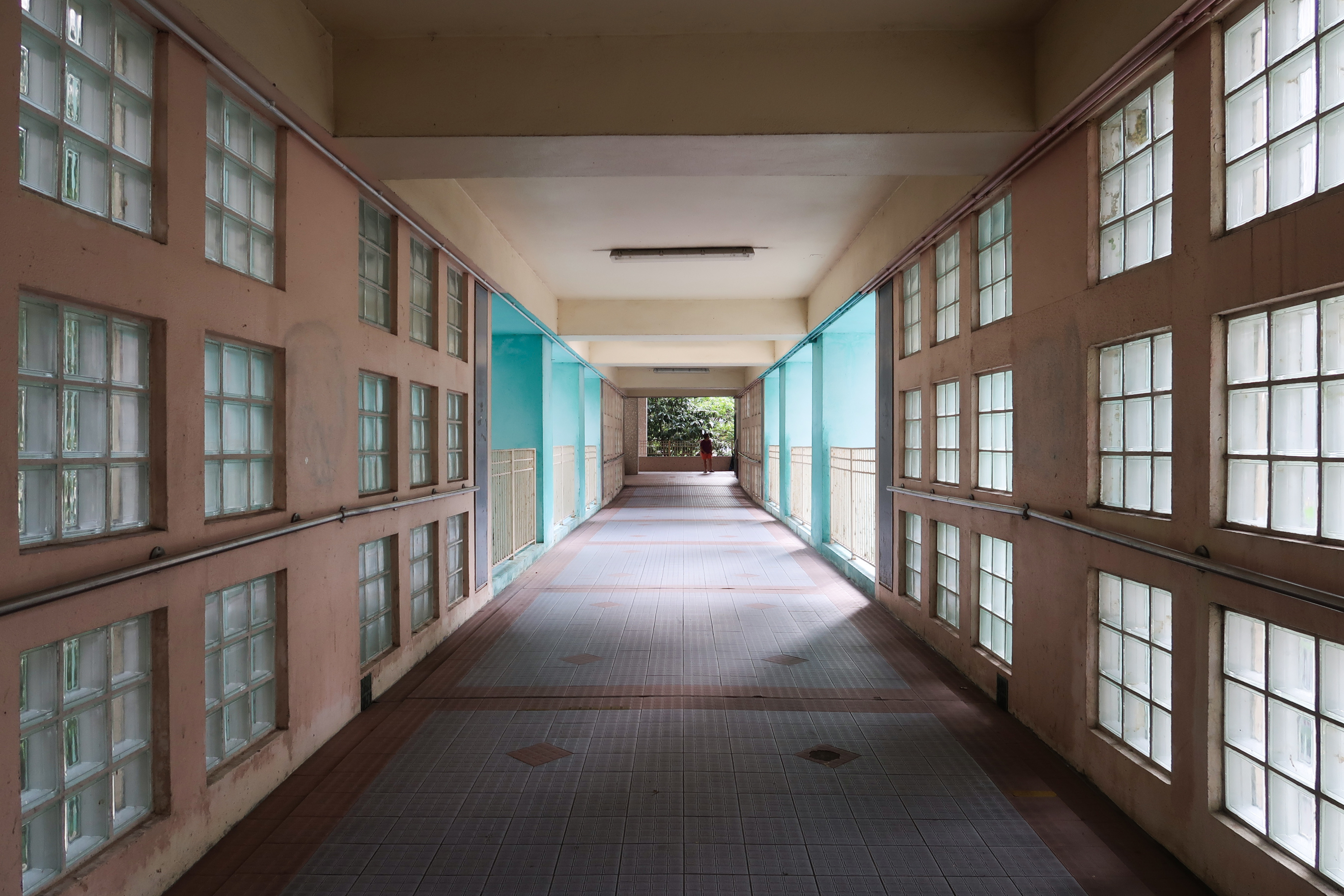 Fung Tak Estate Bridge Access windows